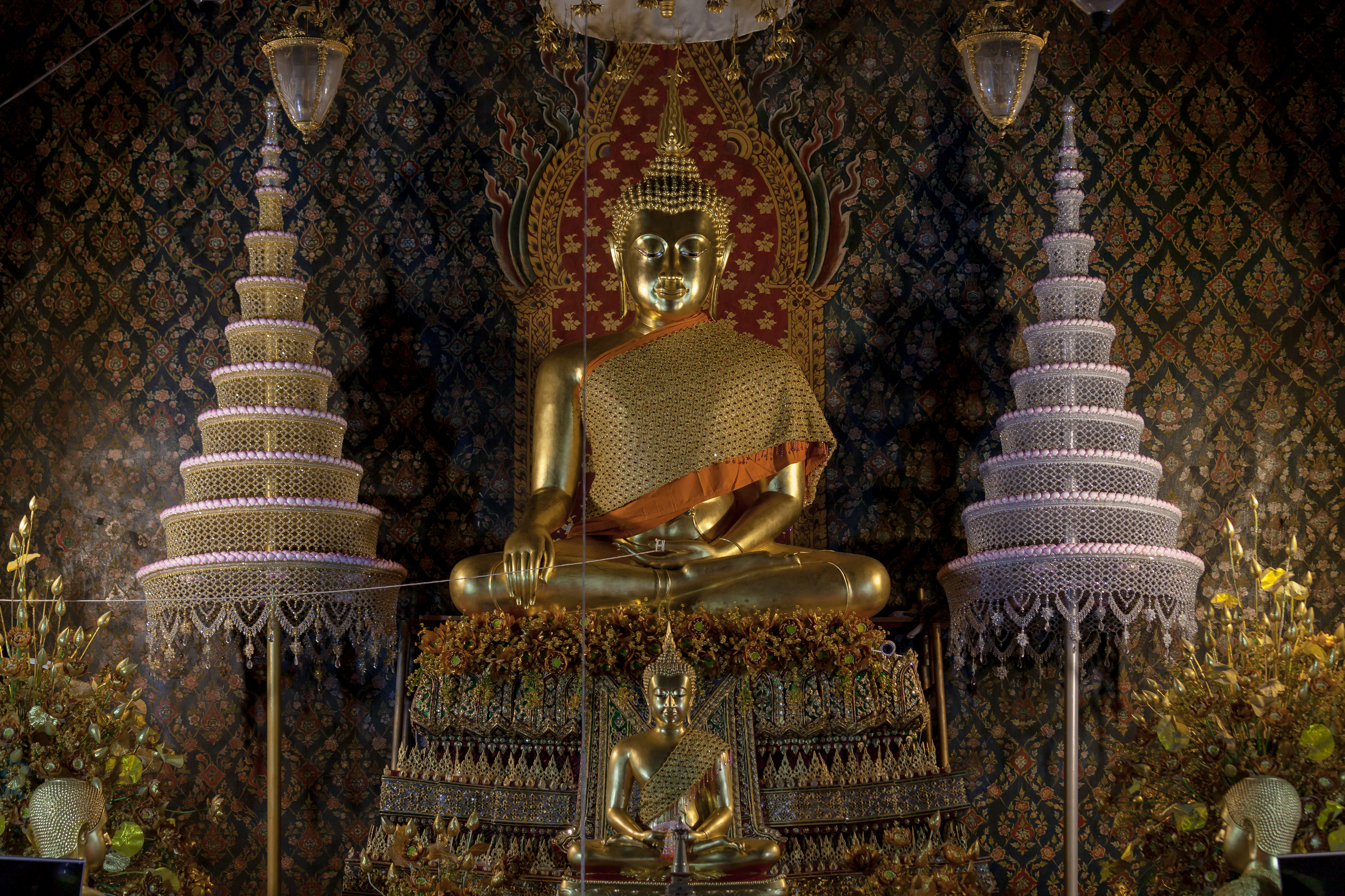 Phra Sitharod in Ubosot of Wat Phichaiyat, Bangkok.